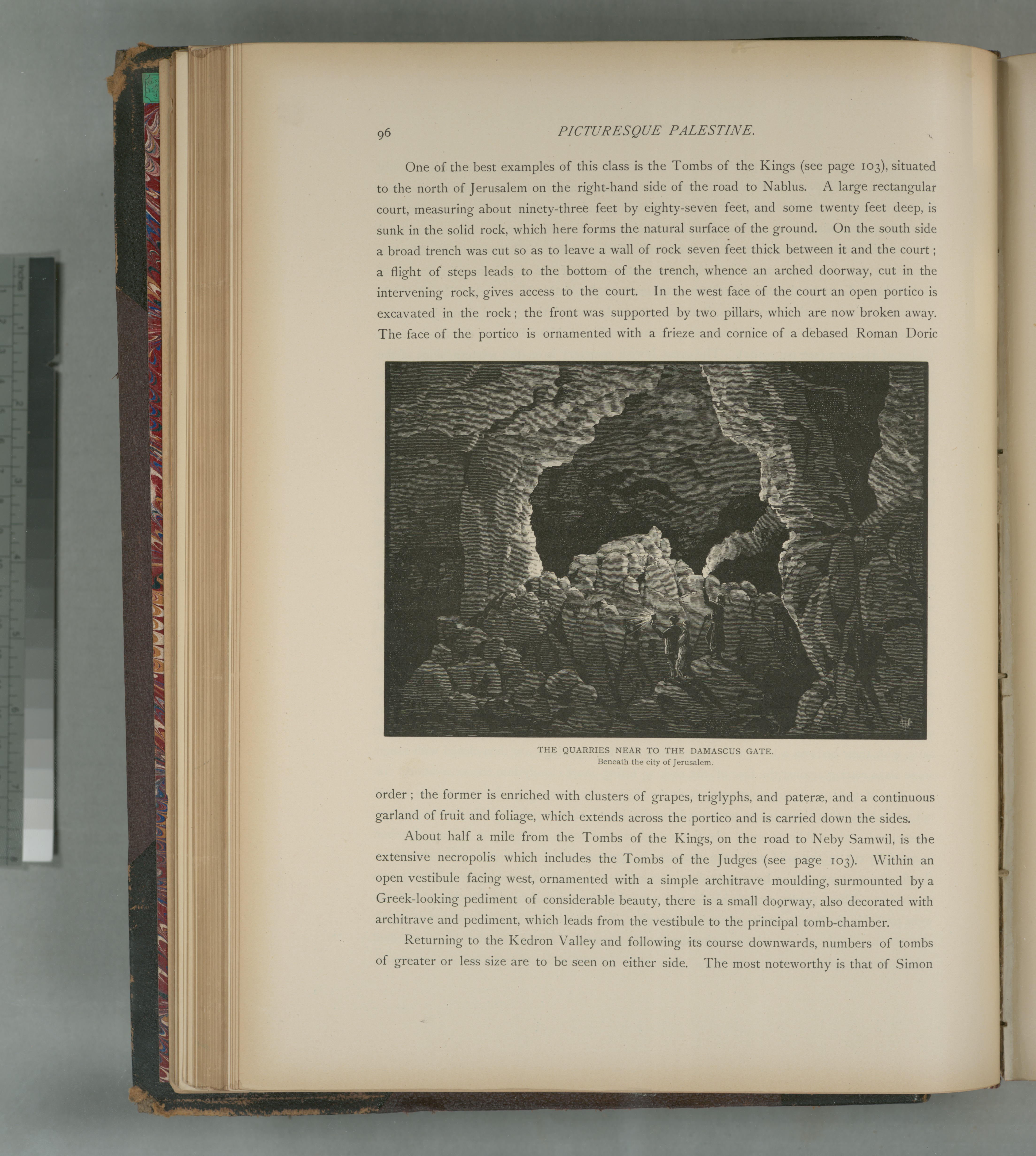 Colonel Wilson, ed.